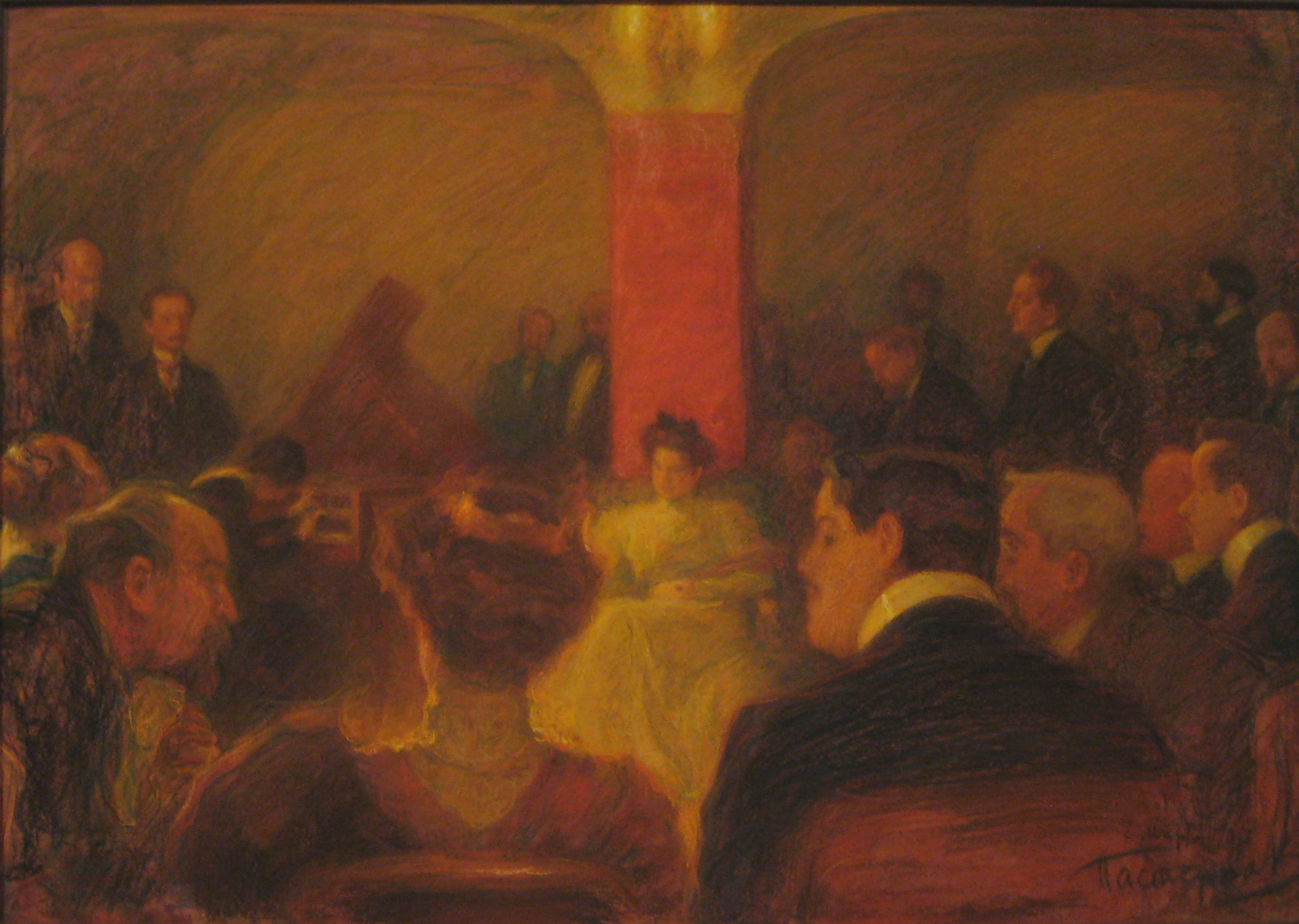 Concert of Wanda Landowska in Moscowlabel QS:Len,"Concert of Wanda Landowska in Moscow"label QS:Lru,"Концерт Ванды Ландовской"